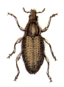 Cycloderes pilosus, from Calwer's Käferbuch, Table 31, Picture 3. Taxonomy was updated to 2008, using mostly the sites Fauna Europaea and BioLib. Please contact Sarefo if the determination is wrong!